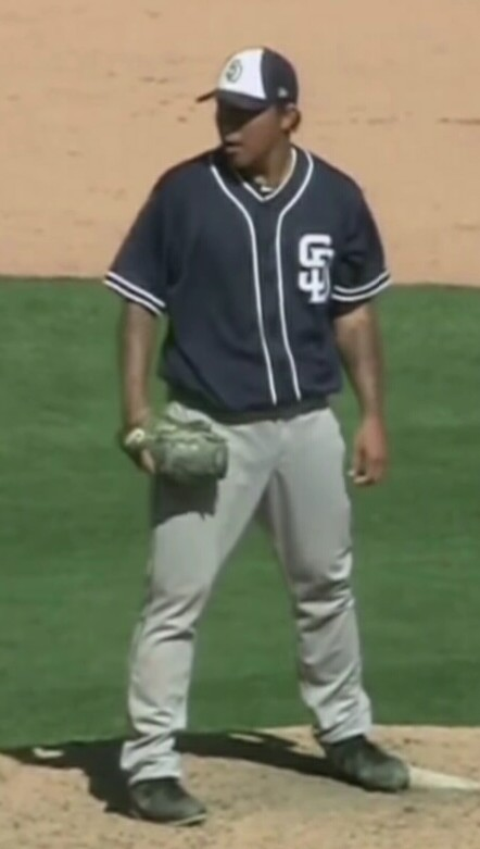 Kuo in 2017 ST